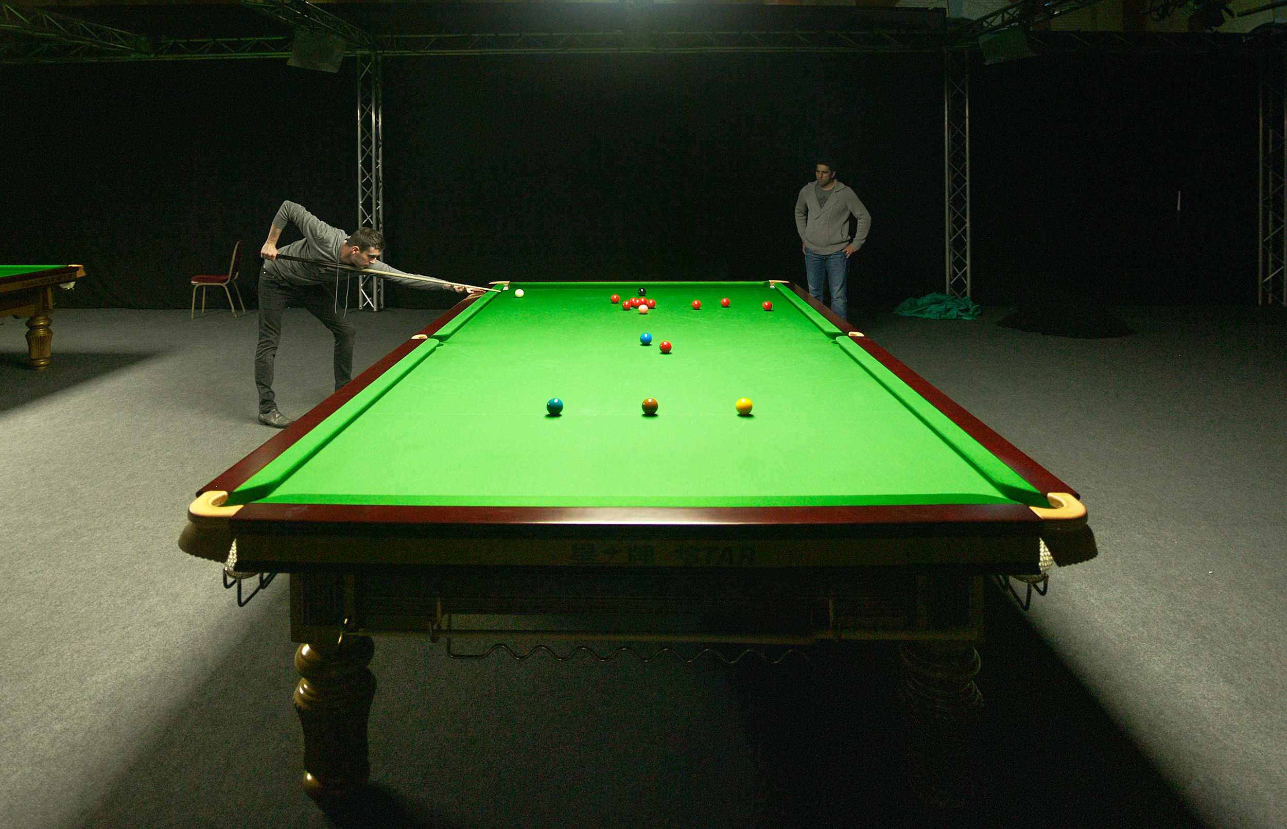 Mark Selby training: (Masters 2012)